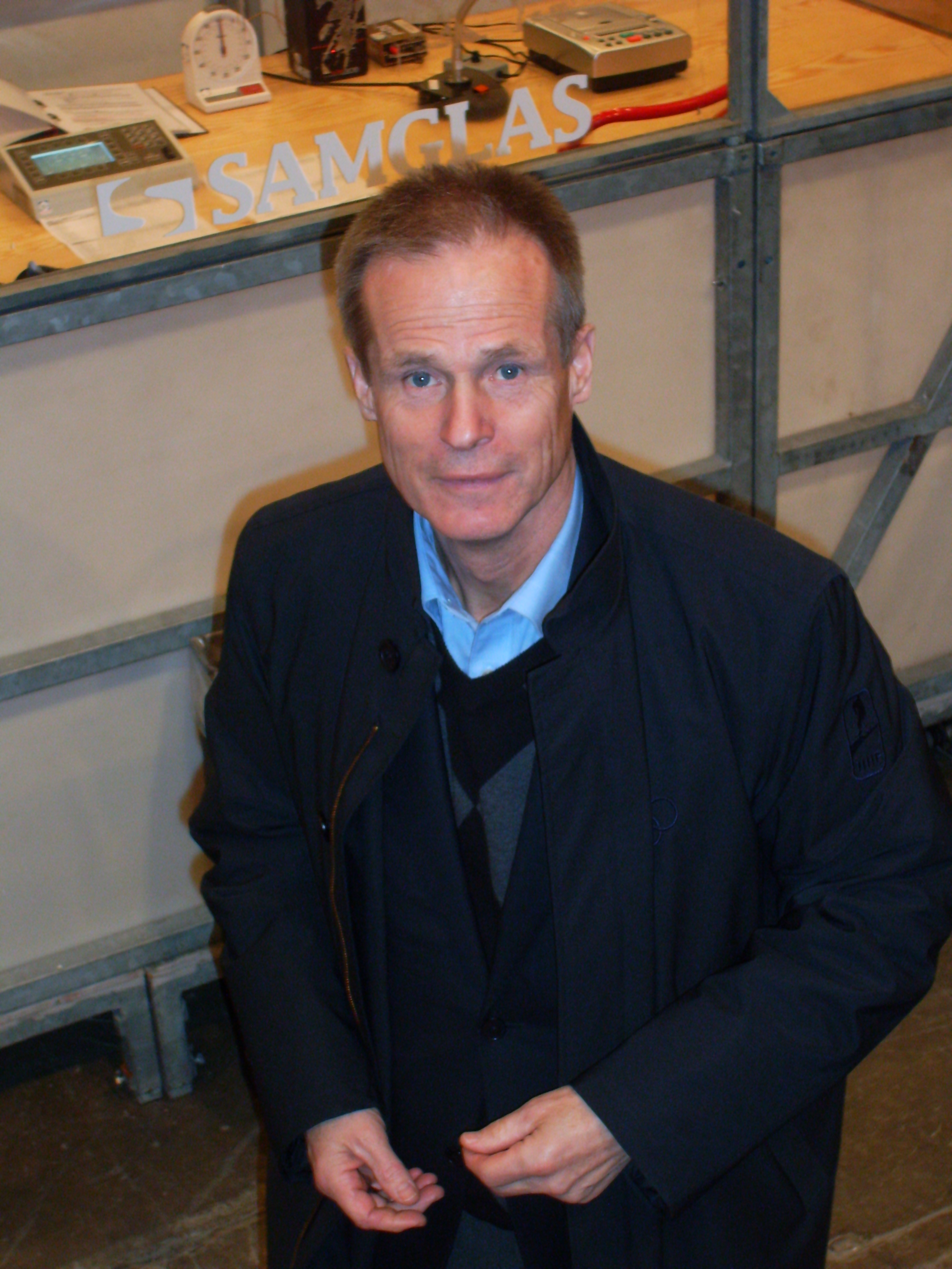 Christer Englund, former ice gockey player.